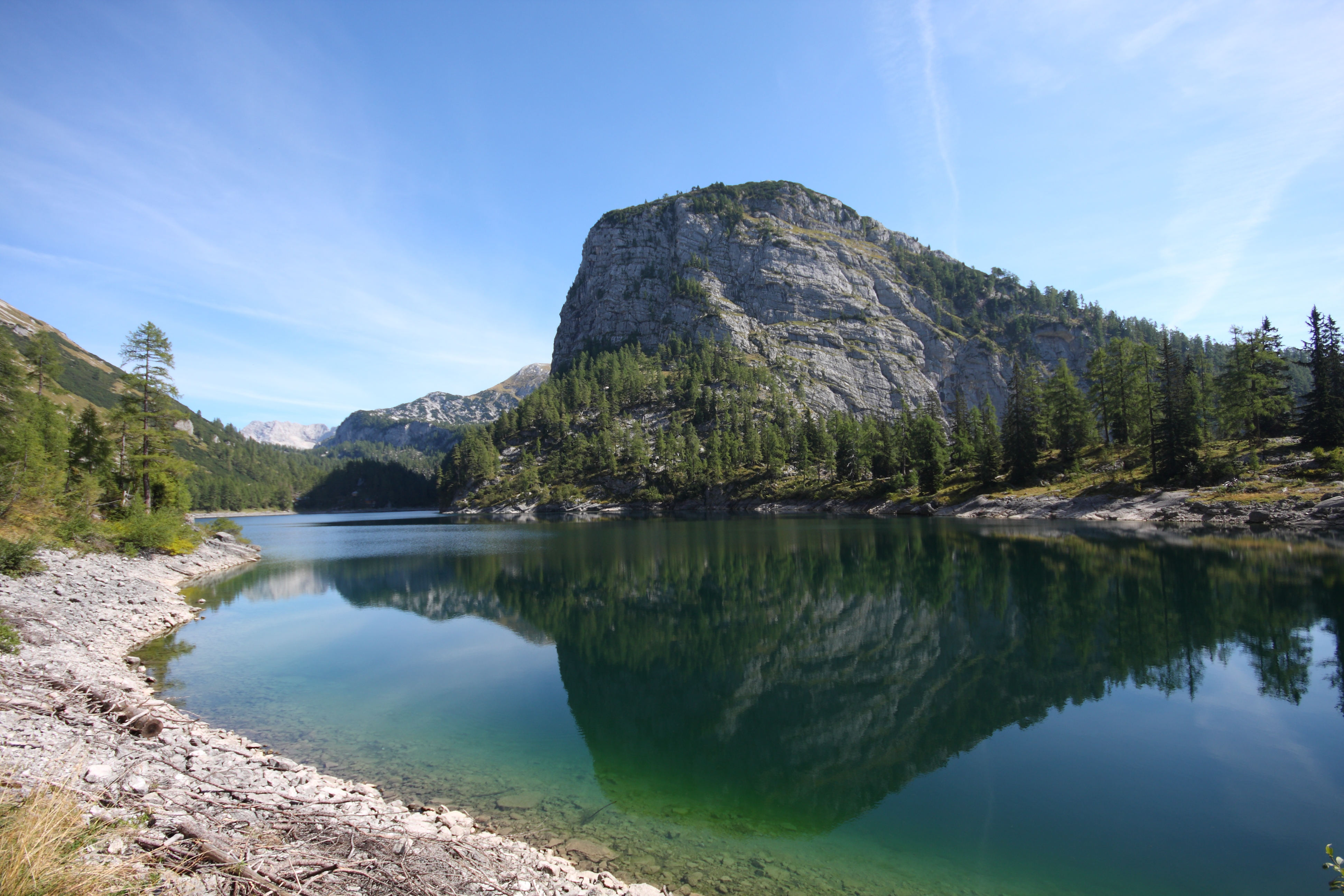 Vorderer Lahngangsee, Salzkammergut, Styria, Austria